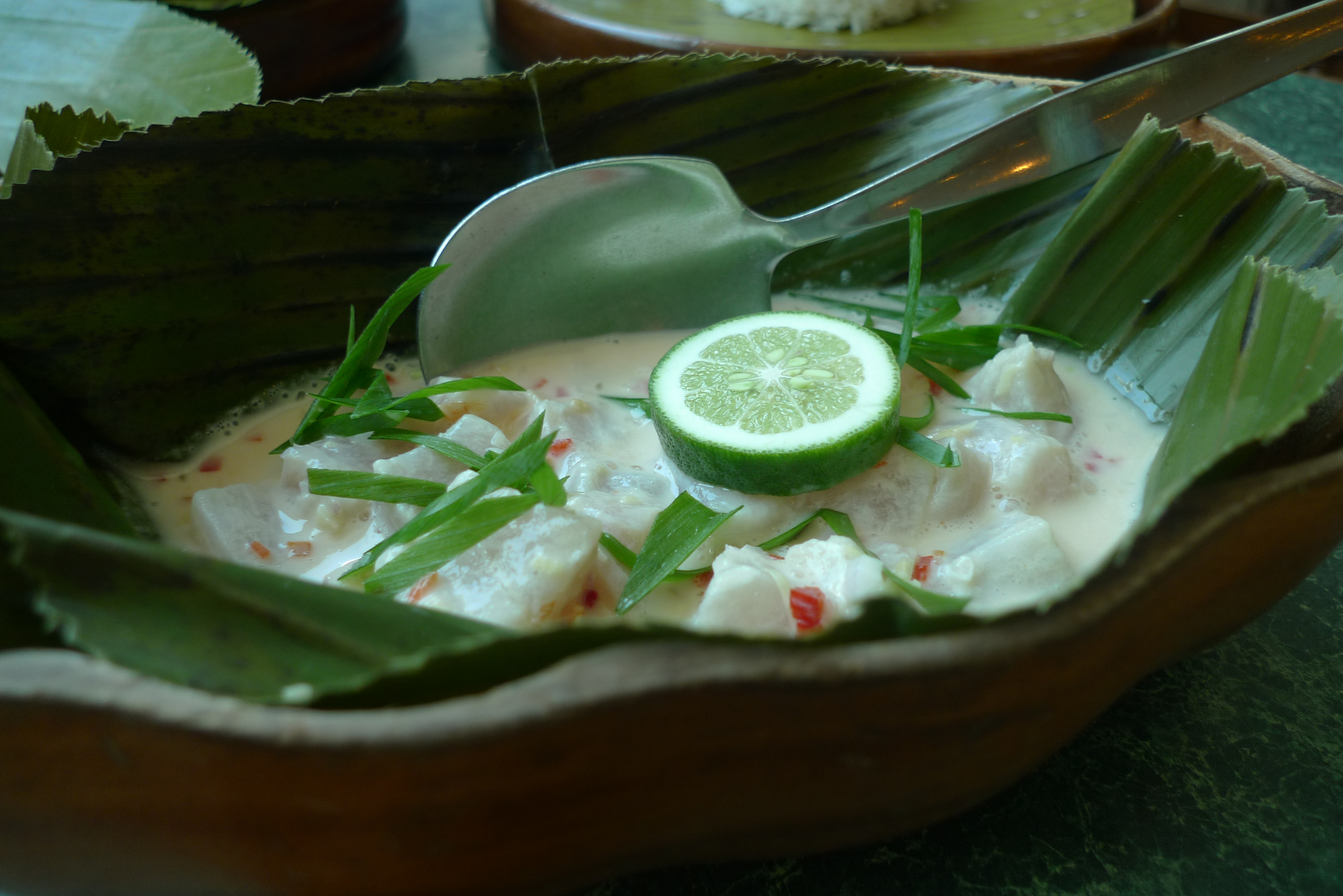 Kagay-anon Kinilaw